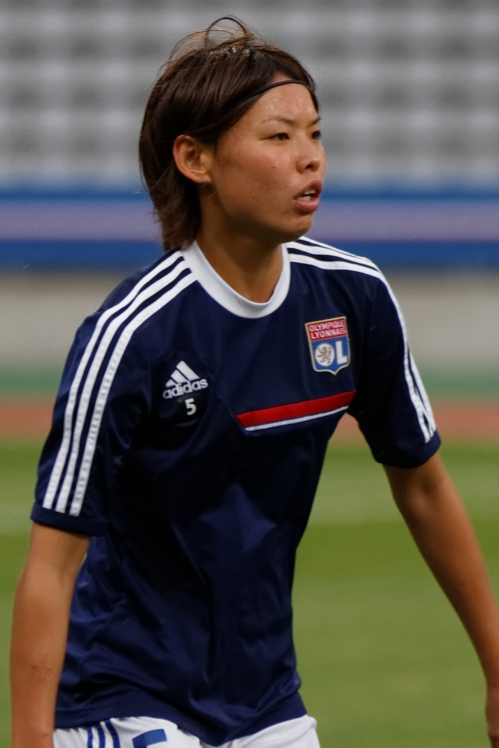 PSG-Lyon, September 29th, 2013.